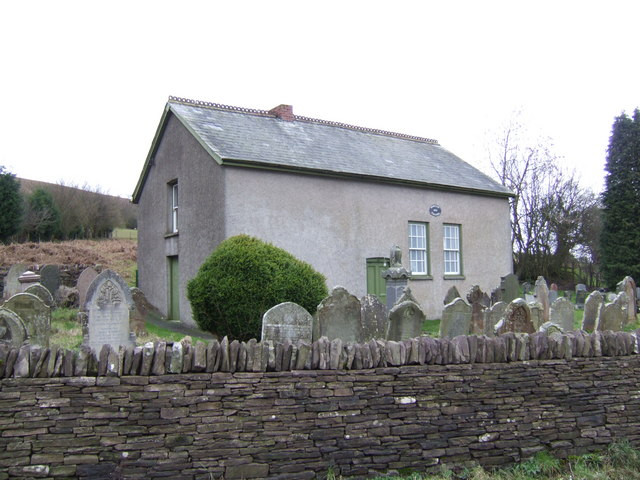 Moriah Chapel, Pengenffordd Moriah is a Calvinistic Methodist chapel, part of the Presbyterian Church of Wales (Eglwys Bresbyteraidd Cymru).